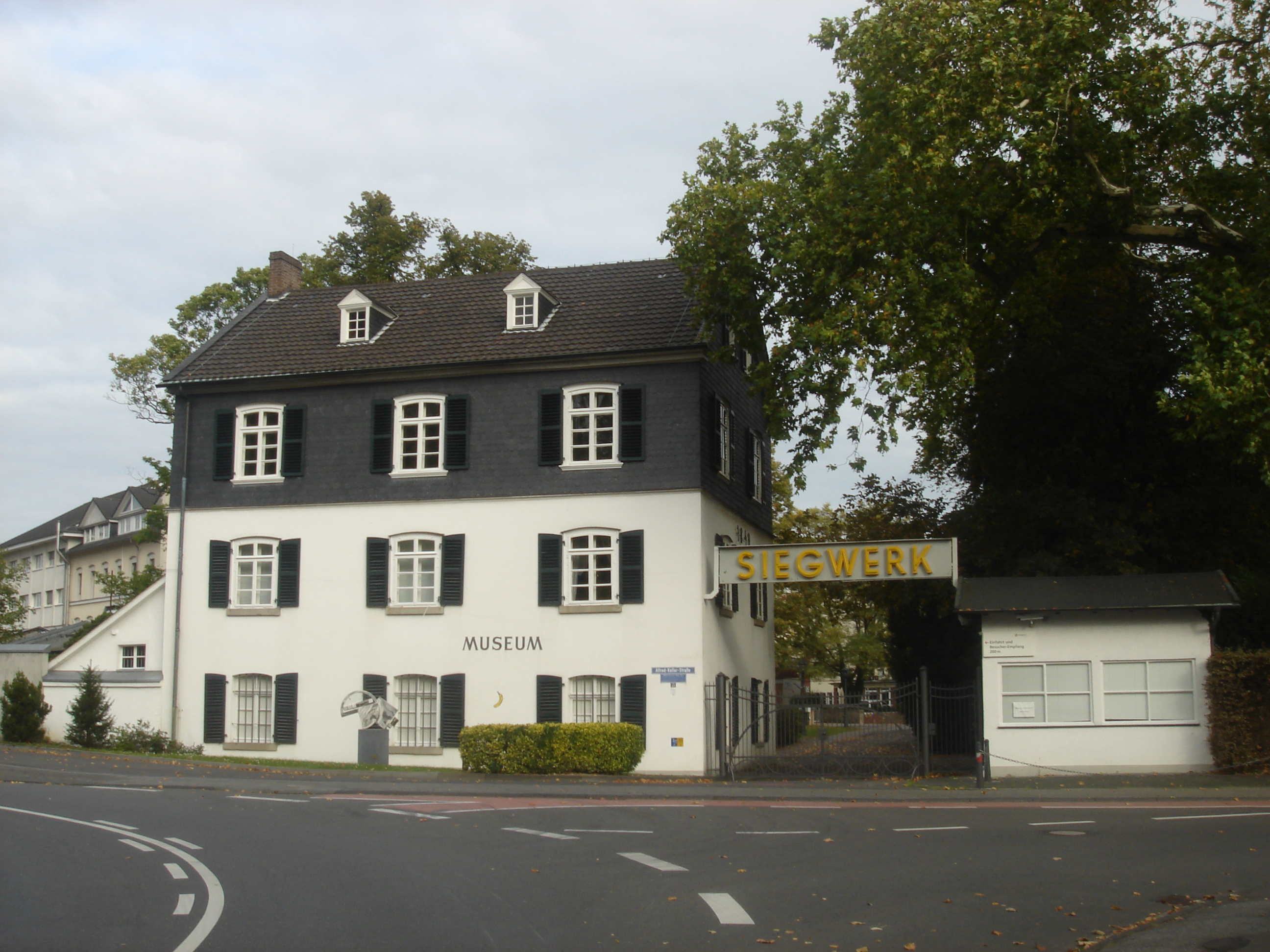 Siegwerk gate house museum, Siegburg, Germany.